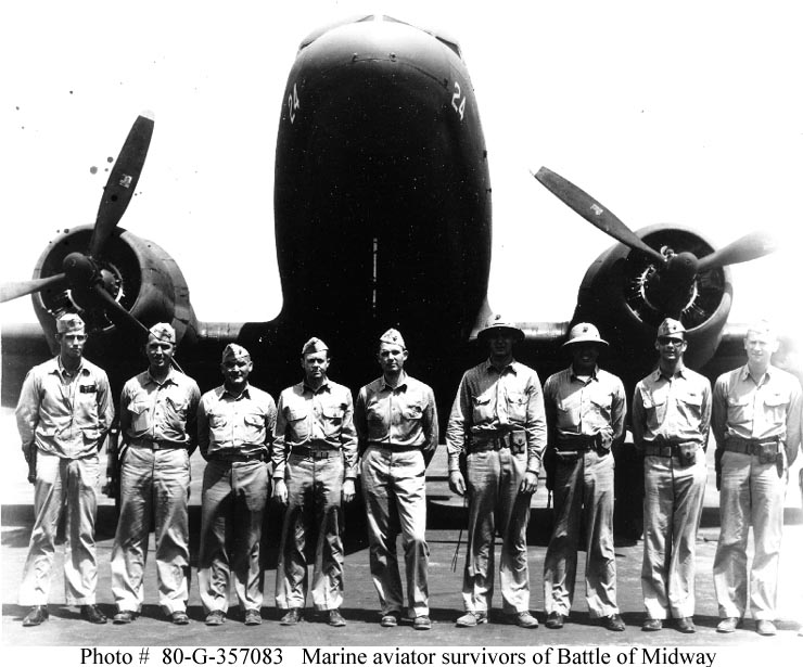 Standing in front of a VMJ-252 R4D-1 (Bureau # 3143) at Ewa Mooring Mast Field, Oahu, 22 June 1942. All but one are members of Marine Fighting Squadron 221 (VMF-221). They are (from left to right): Captain Marion E. Carl; Captain Kirk Armistead; Major Raymond Scollin, of Marine Air Group 22; Captain Herbert T. Merrill; Second Lieutenant Charles M. Kunz; Second Lieutenant Charles S. Hughes; Second Lieutenant Hyde Phillips; Captain Philip R. White and Second Lieutenant Roy A. Corry, Jr.